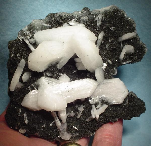 Stilbite Locality: Basalt Quarry, Ambariomiambana, Sambava District, Sava (Northeastern) Region, Antsiranana Province, Madagascar (Locality at ) Size: 9.4 x 8.2 x 4.5 cm. A SUPERB, AESTHETIC and RARE specimen of highly lustrous, pearlescent stilbites on beautifully contrasting, black basalt matrix from the same Madagascar locality, that produced the small lot of very gemmy, twinned, colorless to amber calcites a few years ago at the Munich Show. This is a gorgeous specimen, with all of the major and secondary stilbites being pristine. Stilbite is essentially UNKNOWN from this basalt road-metal quarry.